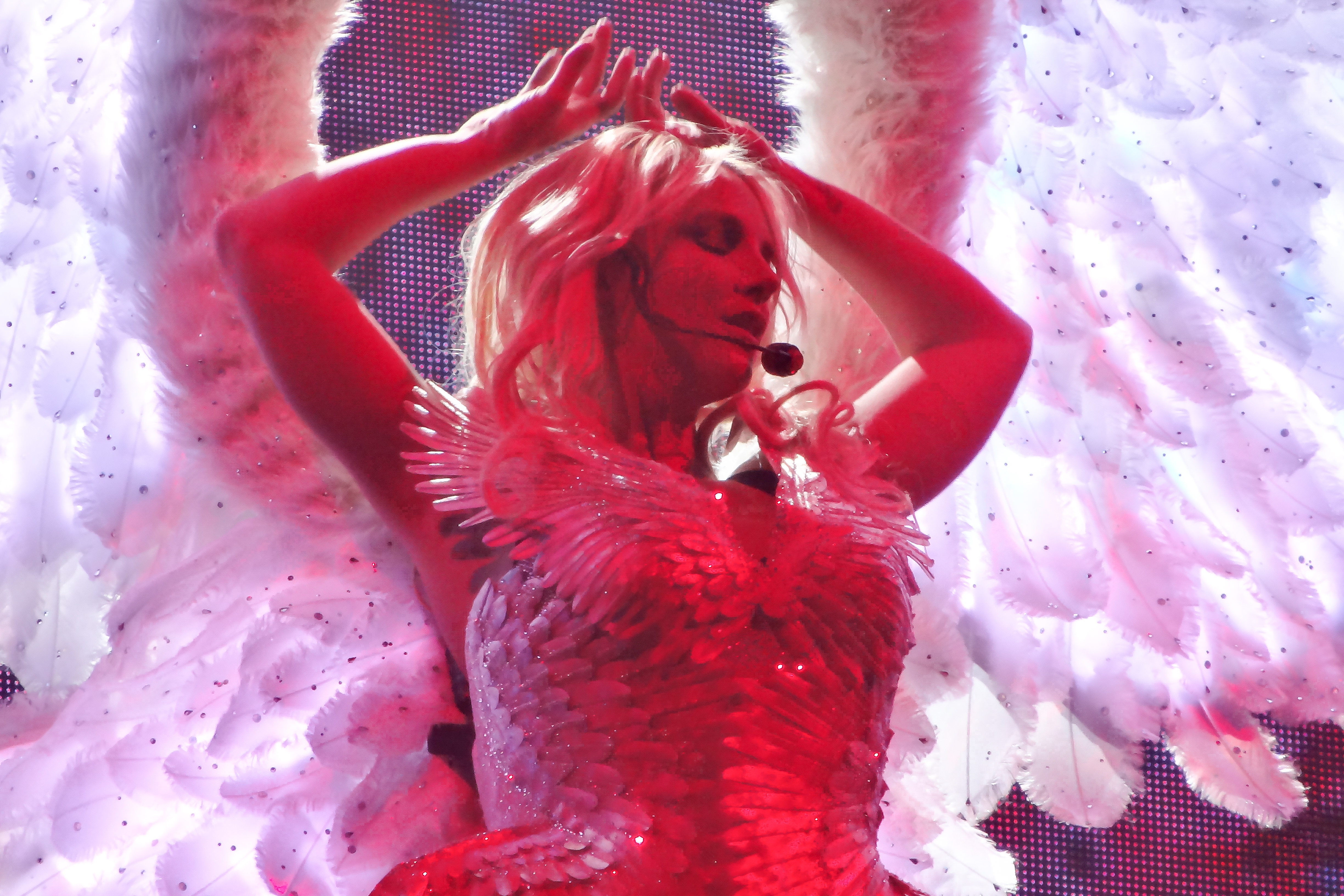 Everytime